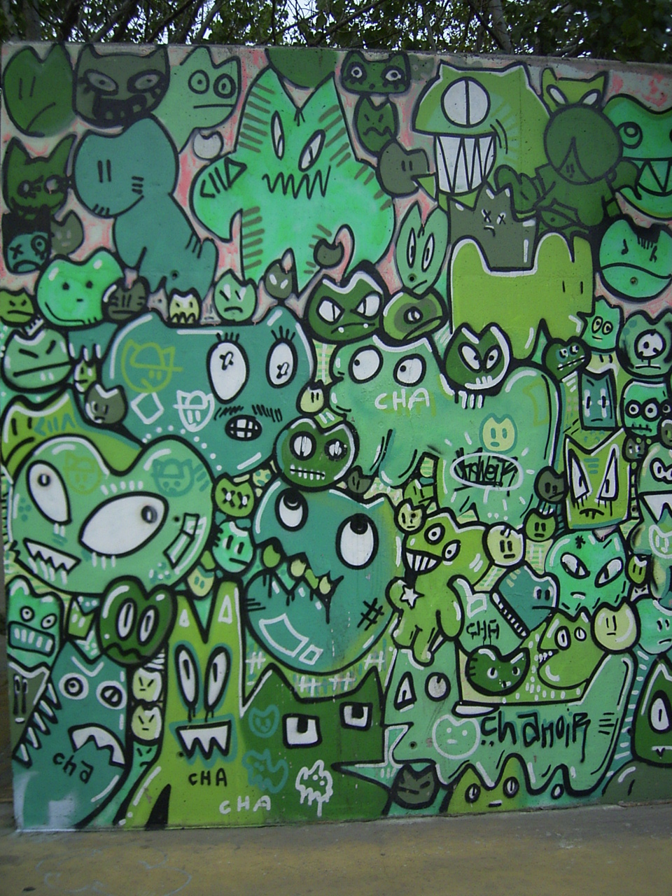 Graffiti by Cha, Barcelona